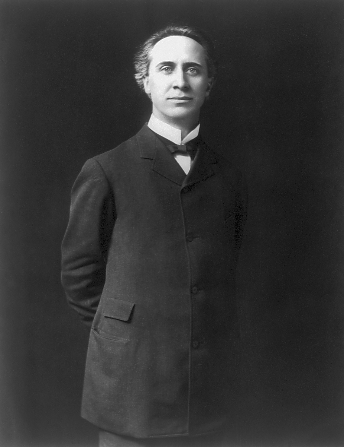 Portrait of Senator Charles Dick of Ohio